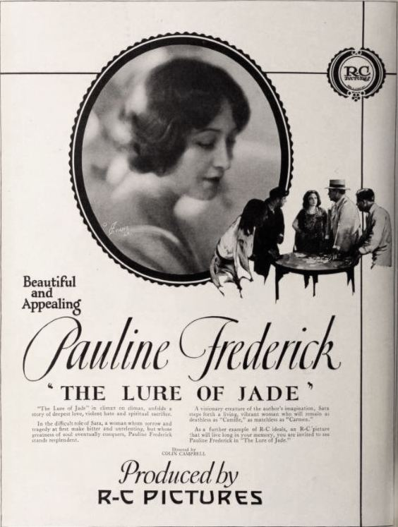 Advertisement for the American drama film The Lure of Jade (1921) with Pauline Frederick, on page 10 of the December 3, 1921 Exhibitors Herald.